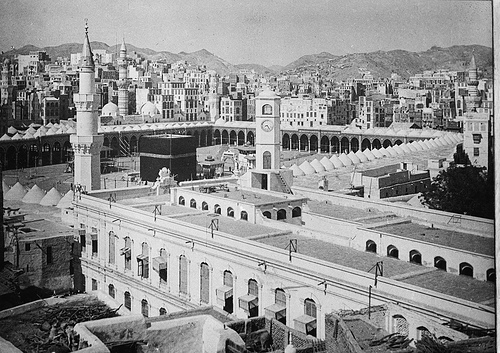 Bird's-eye view of uncrowded Kaaba, Mecca, Suadi Arabia in 1910. During this time it was the capital of the Velayet of Hejaz, Ottoman Empire